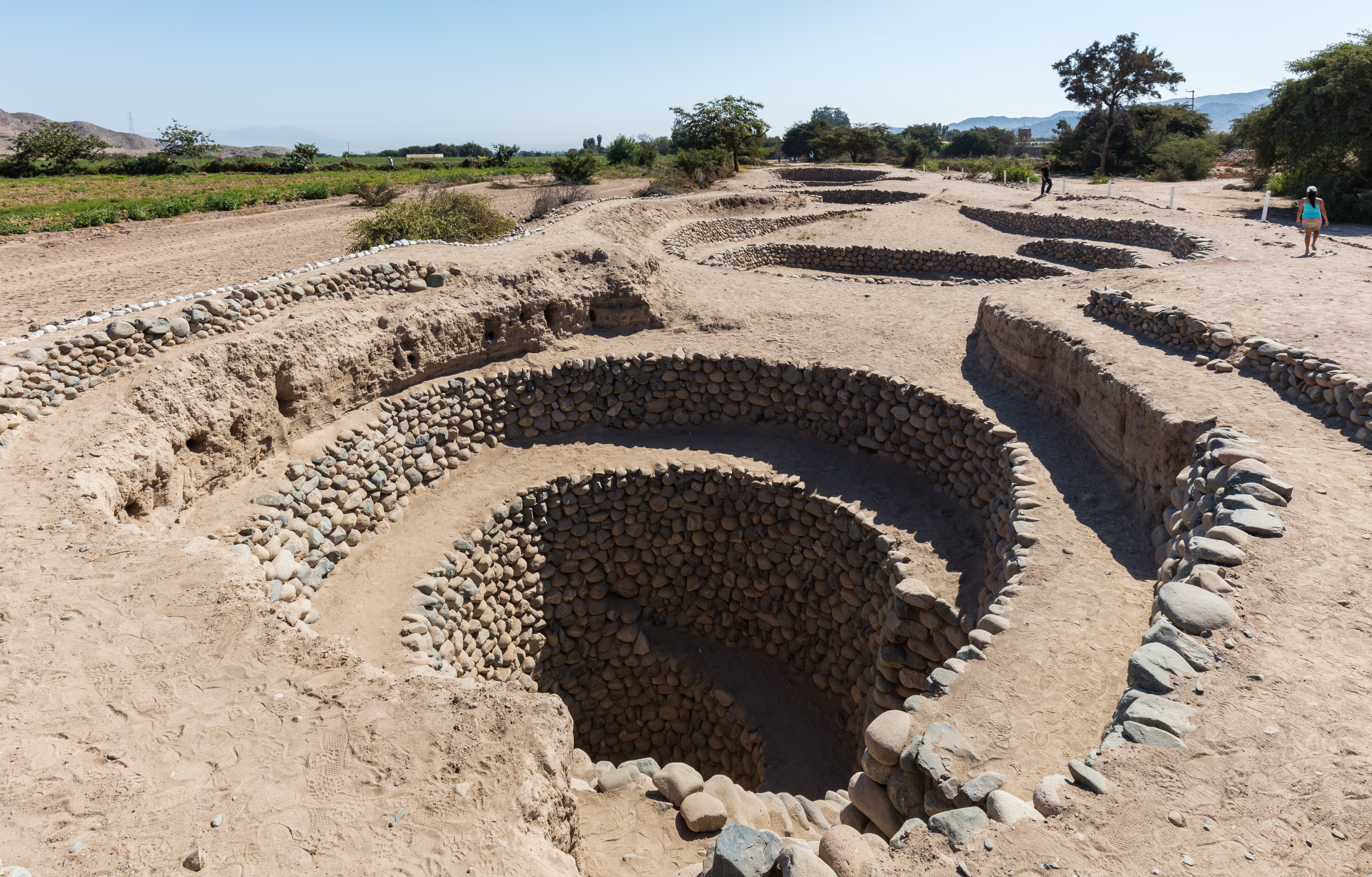 Cantalloc subterranean aqueducts, Nazca, Peru